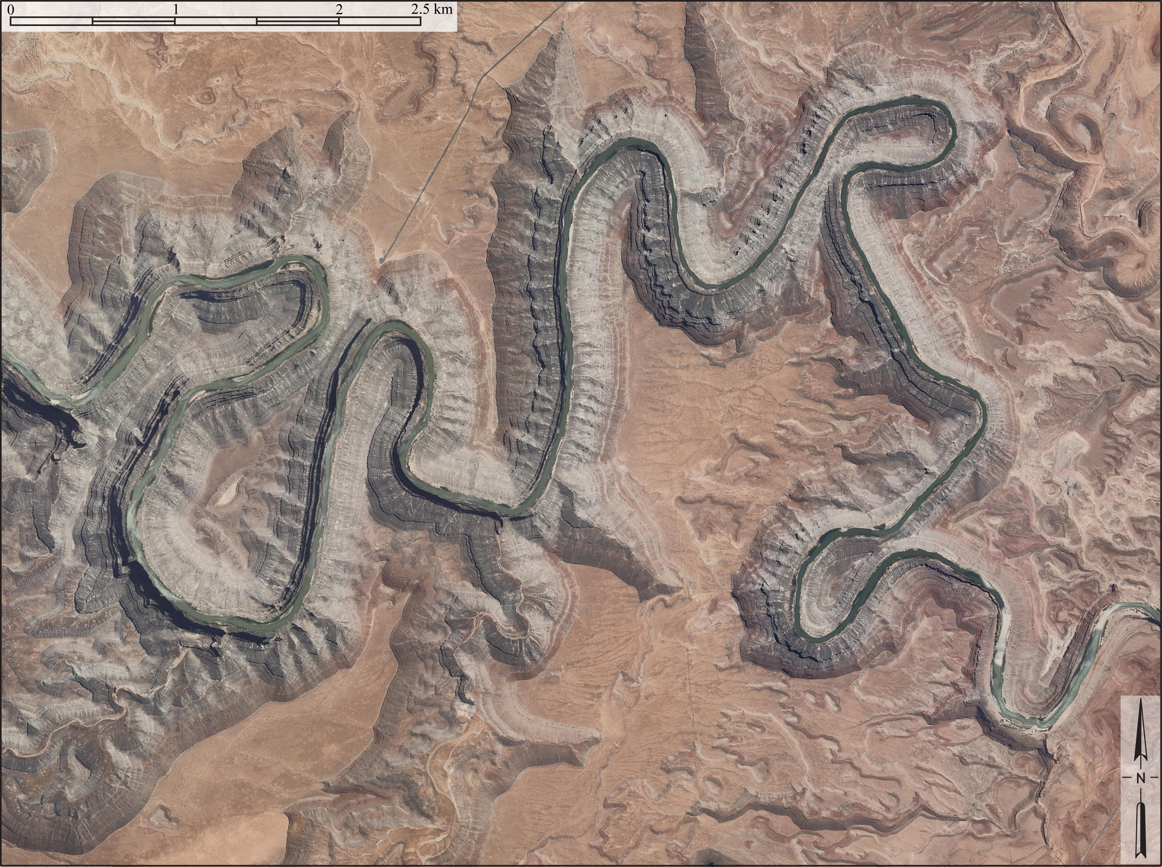 Aerial image of entrenched meanders of the San Juan River within Goosenecks State Park. Located in San Juan County, southeastern Utah (U.S.). Credits Constructed from county topographic map DRG mosaic for San Juan County from USDA/NRCS - National Cartography & Geospatial Center using Global Mapper 12.0 and Adobe Illustrator. Latitude 33° 31' 49.52" N., Longitude 111° 37' 48.02" W.